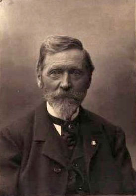 Jens Petersen (1829-1905), Danish photographer